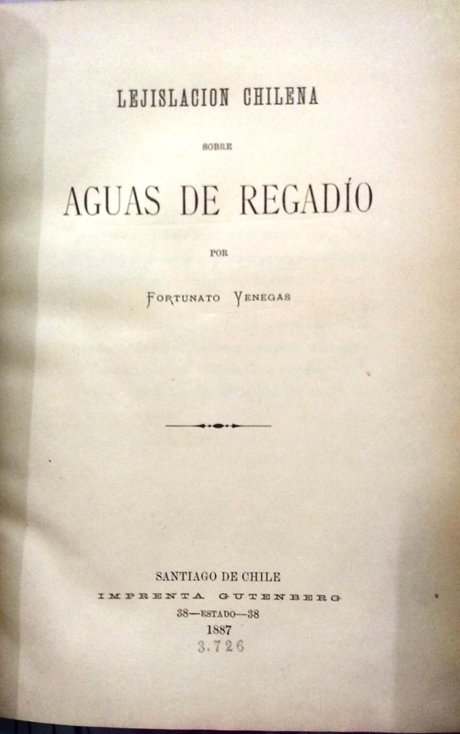 Book cover of Lejislación...